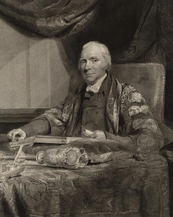 A portrait from the Welsh Portrait Collection at the National Library of Wales. Depicted person: John Latham – English physician, naturalist and author